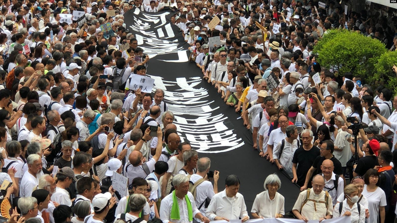 Hong Kong "silver-hair" elderly marching on the streets on 17 July 2019, supporting young people for their anti-bill protests.